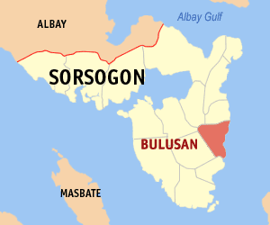 Map of Sorsogon showing the location of Bulusan